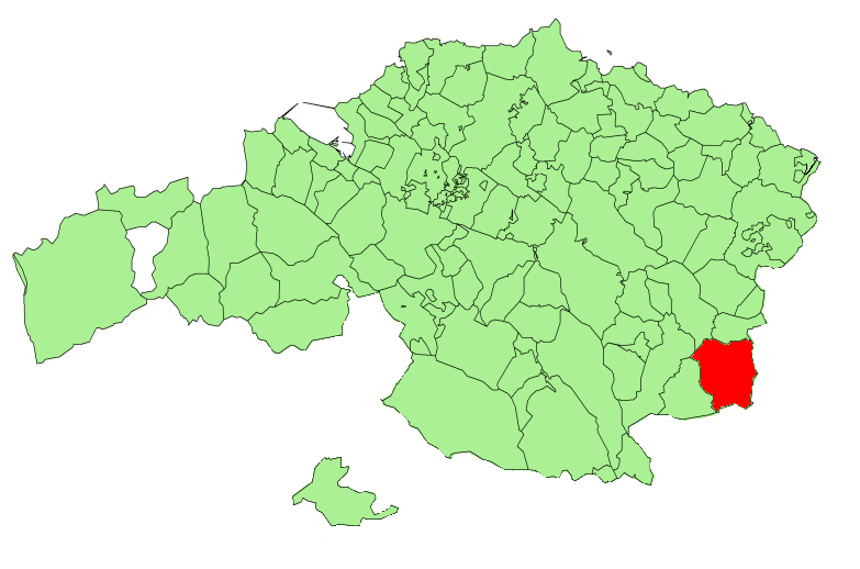 Elorrio municipality in the province of Biscay